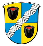 Coat of Arms of Sinn